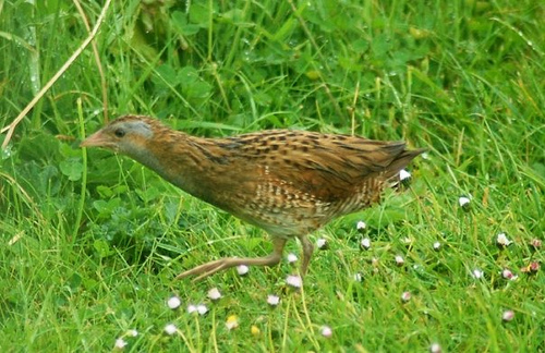 Corn Crake (Crex crex) September 24, 2009.